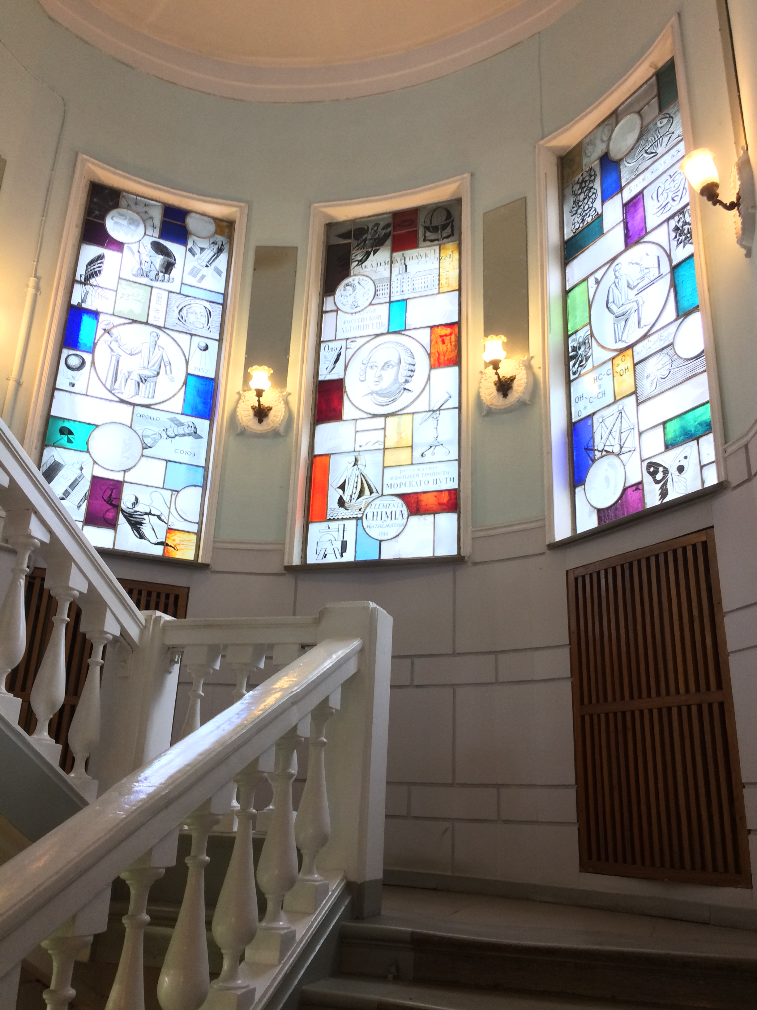 Library for Natural Sciences RAS